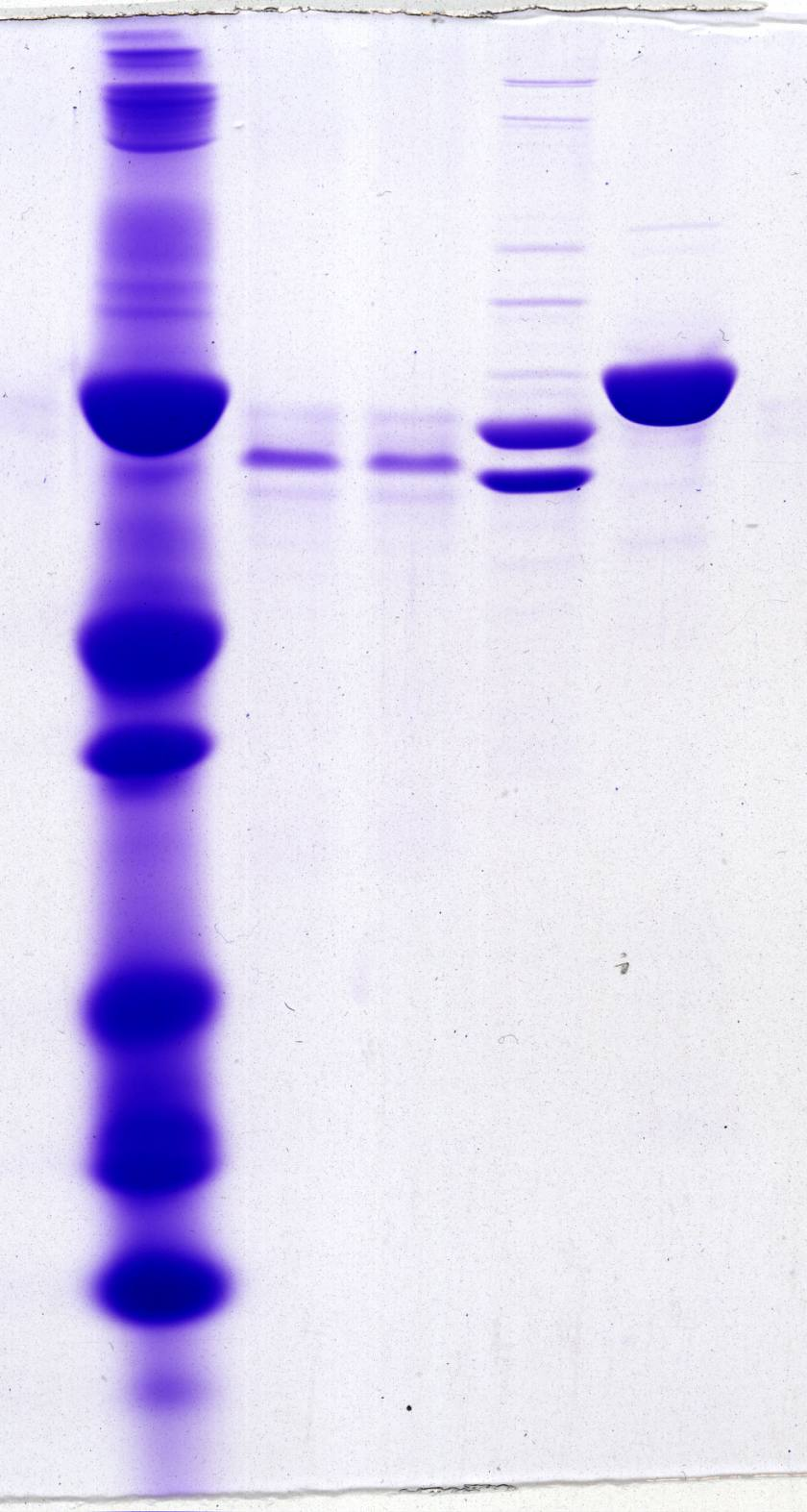 Example of a Coomassie stained gel. A 10 % tris-tricine gel was prepared according to Schägger & Jagow (PMID 2449095) and loaded with a molecular marker (66 kDa, 45, 35, 24, 18, 9?) lane 1), and 1-5 µg of purified and TCA-precipitated, partly His6-tagged yeast proteins (Srp54p, Srp54p, heterodimeric RAC (Ssz1 + Zuotin), Ssb1). The gel was stained with Coomassie Brilliant Blue solution (containing methanol) and subsequently destained (staining solution without Coomassie).